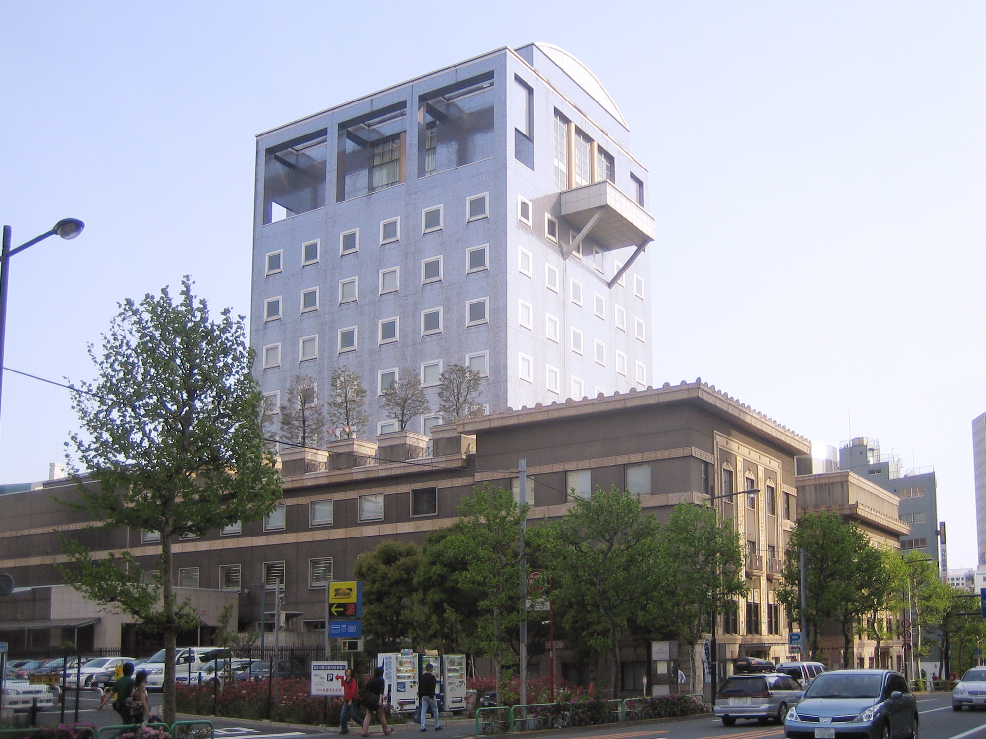 Ochanomizu Square (お茶の水スクエア), in Chiyoda, Tokyo, Japan. Nihon University Casals Hall (日本大学カザルスホール) exists in this building.